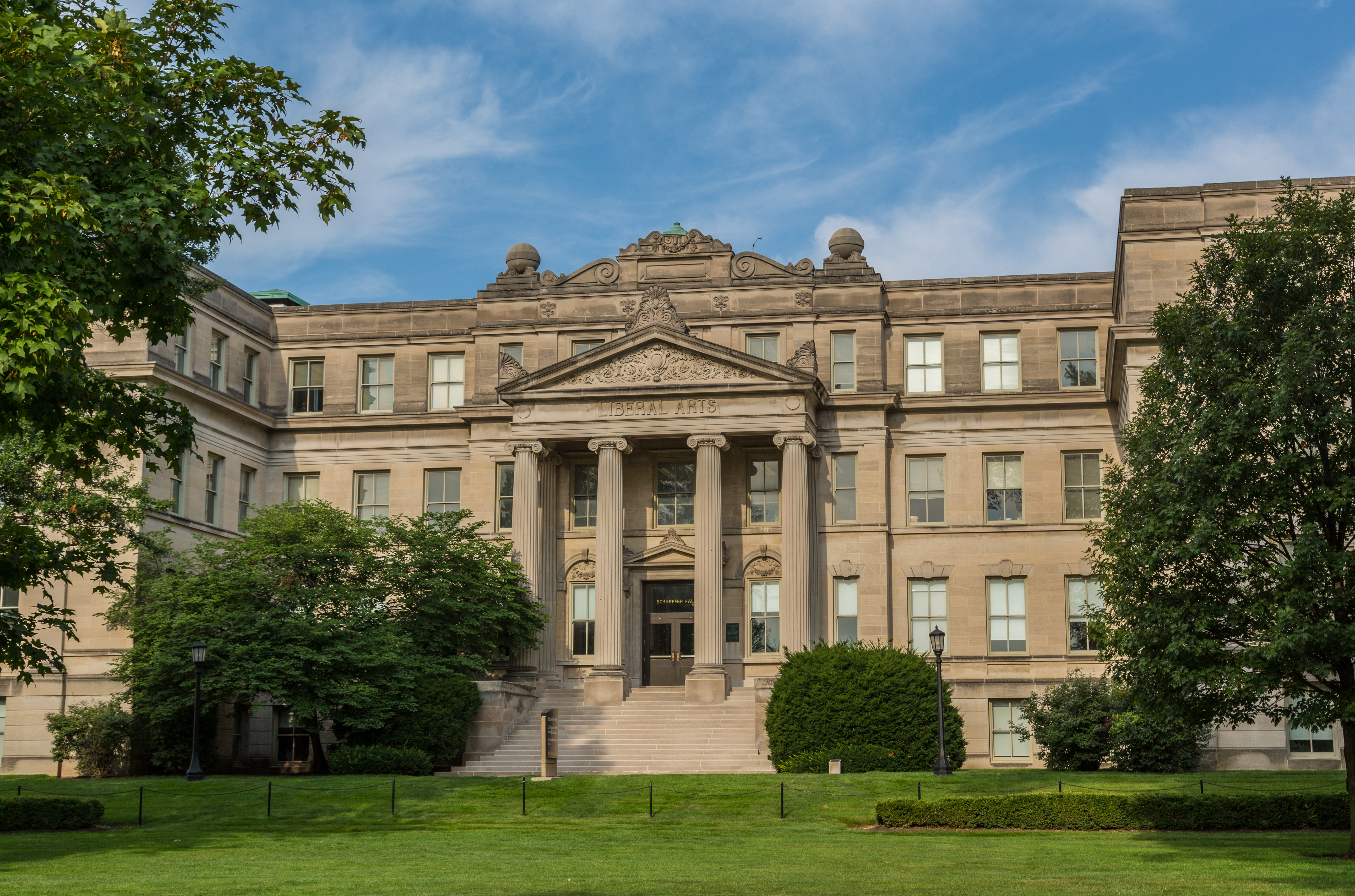 Schaeffer Hall, the College of Liberal Arts and Sciences, at the University of Iowa in Iowa City, Iowa.